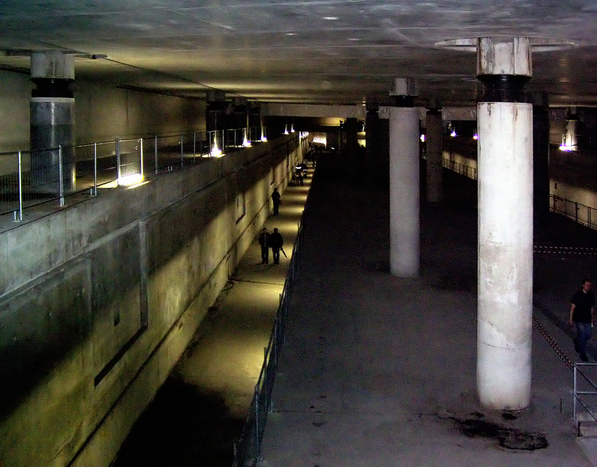 Berlin's underground station Bundestag before its opening; Berlin, Germany